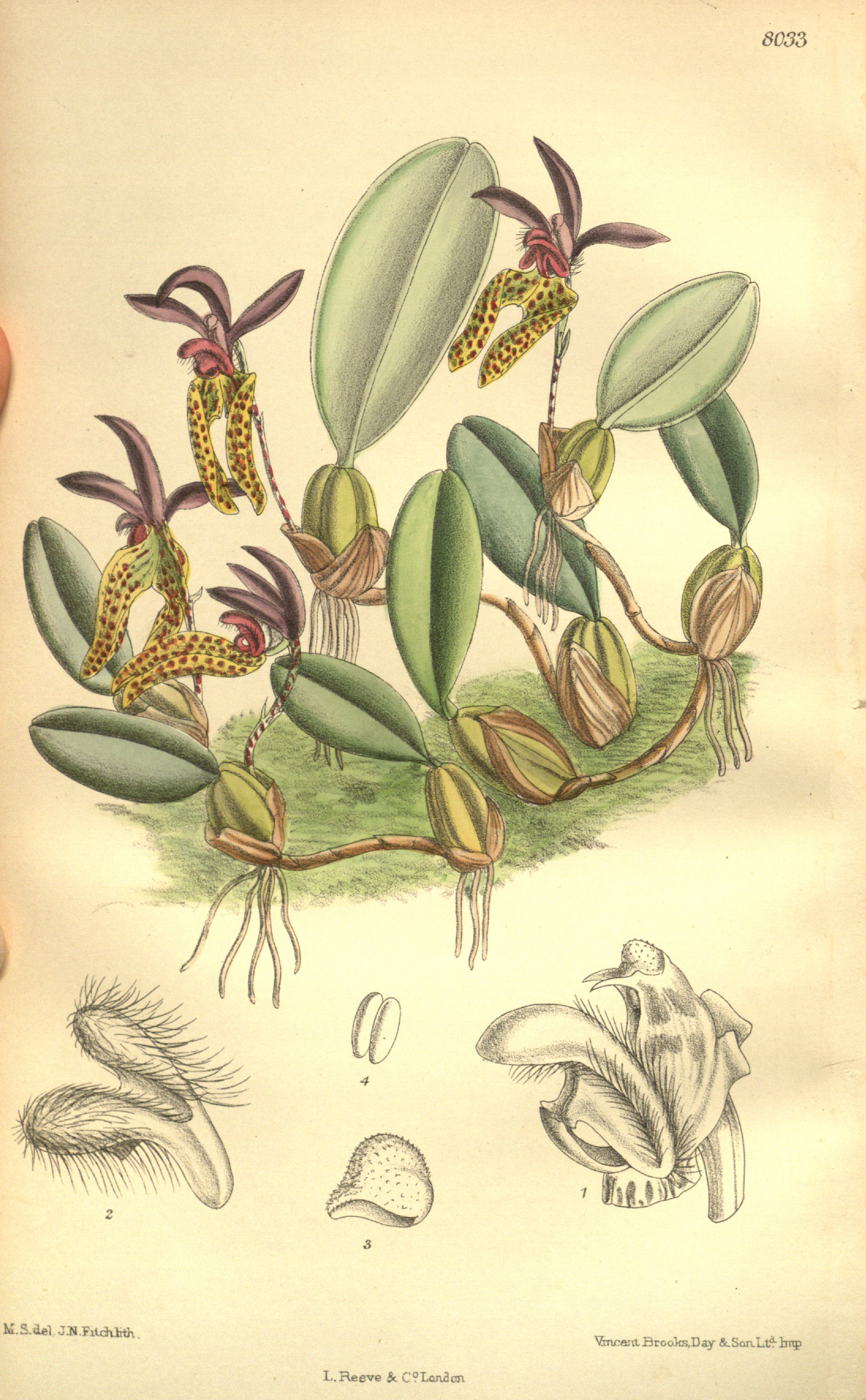 Illustration of Bulbophyllum lasiochilum (as syn. Cirrhopetalum breviscapum)